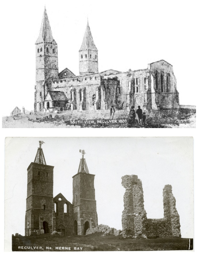 These paired images show St Mary's Church, Reculver, Kent as it was in 1800 (above), and in the early 1900s (below), viewed from the south-east